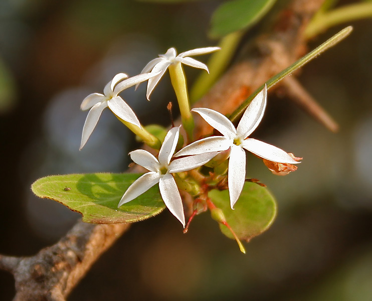 Carissa spinarum - Wild Karanda, Jungli Karonda, Kavali, Karamdika, karvand or Chirukila at Deer Park in Shamirpet, Rangareddy district, Andhra Pradesh, India.